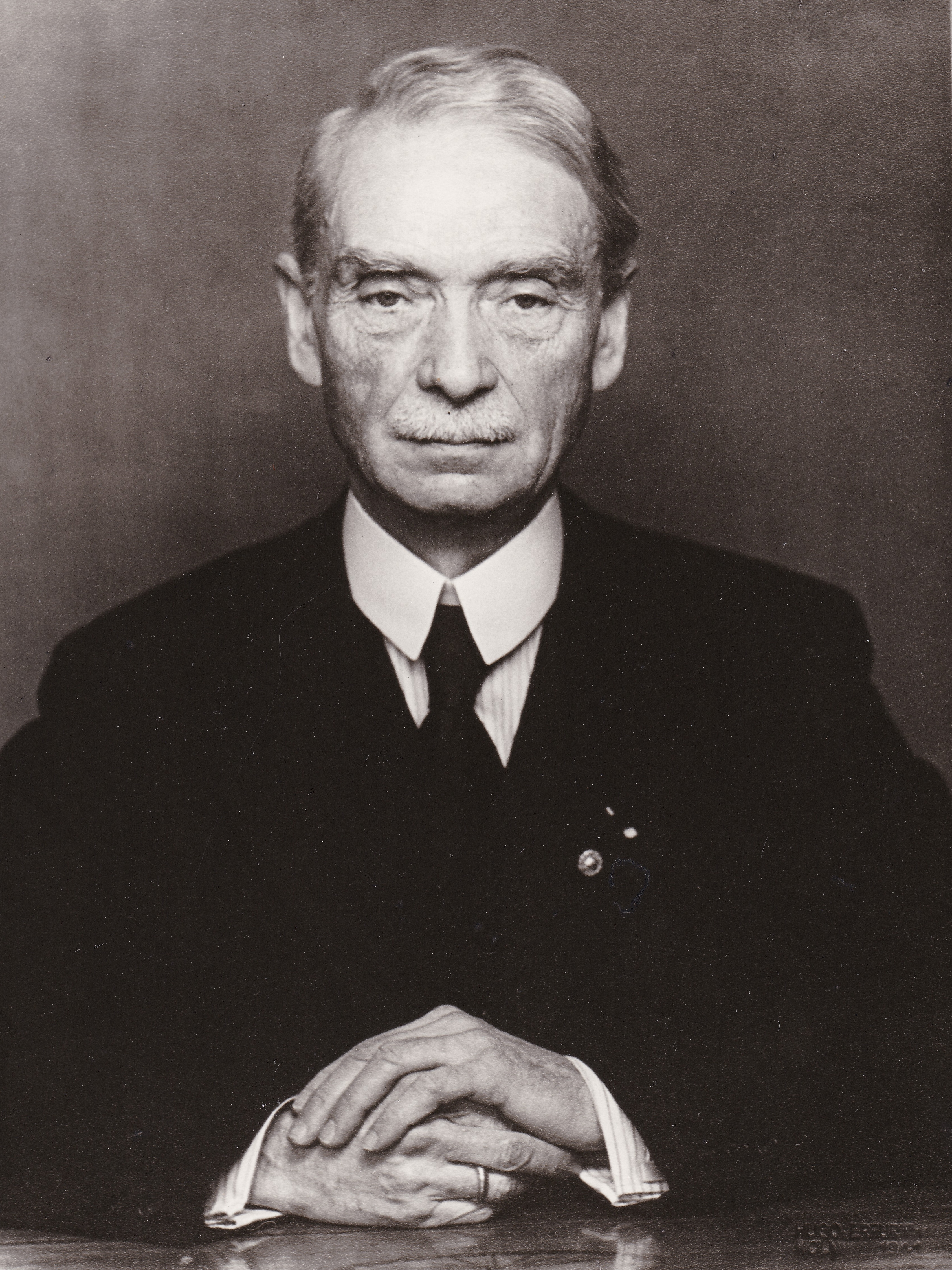 Architect Hans Verbeek